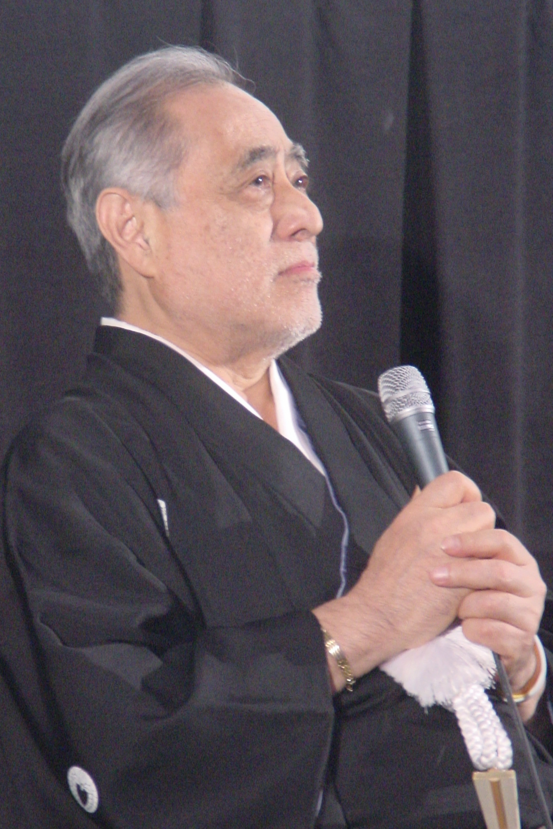 Japanese actor and film director Masahiko Tsugawa, aka Masahiko Makino, at Tokyo International Film Festival, 22 October 2005